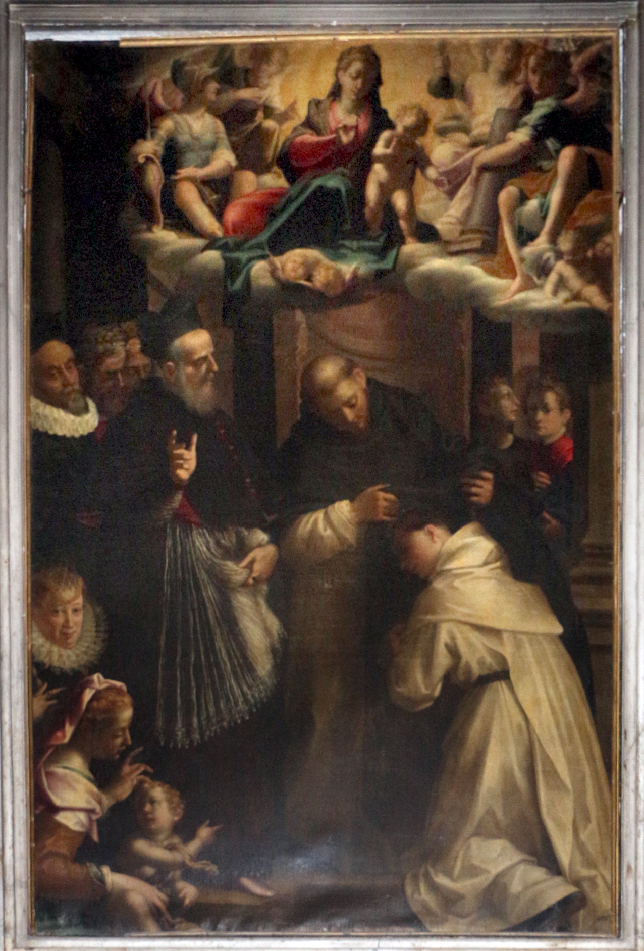 Santa Maria di Castello (Genoa)